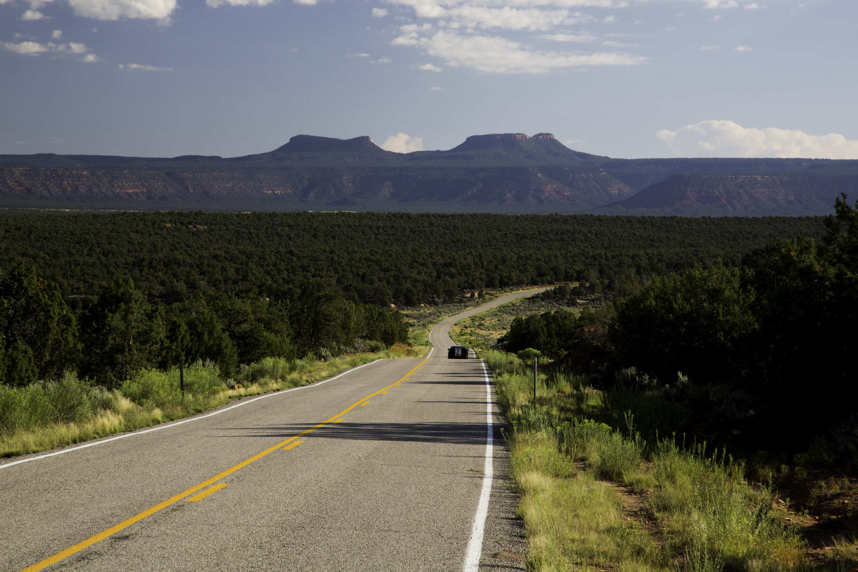 Road in Bears Ears National Monument